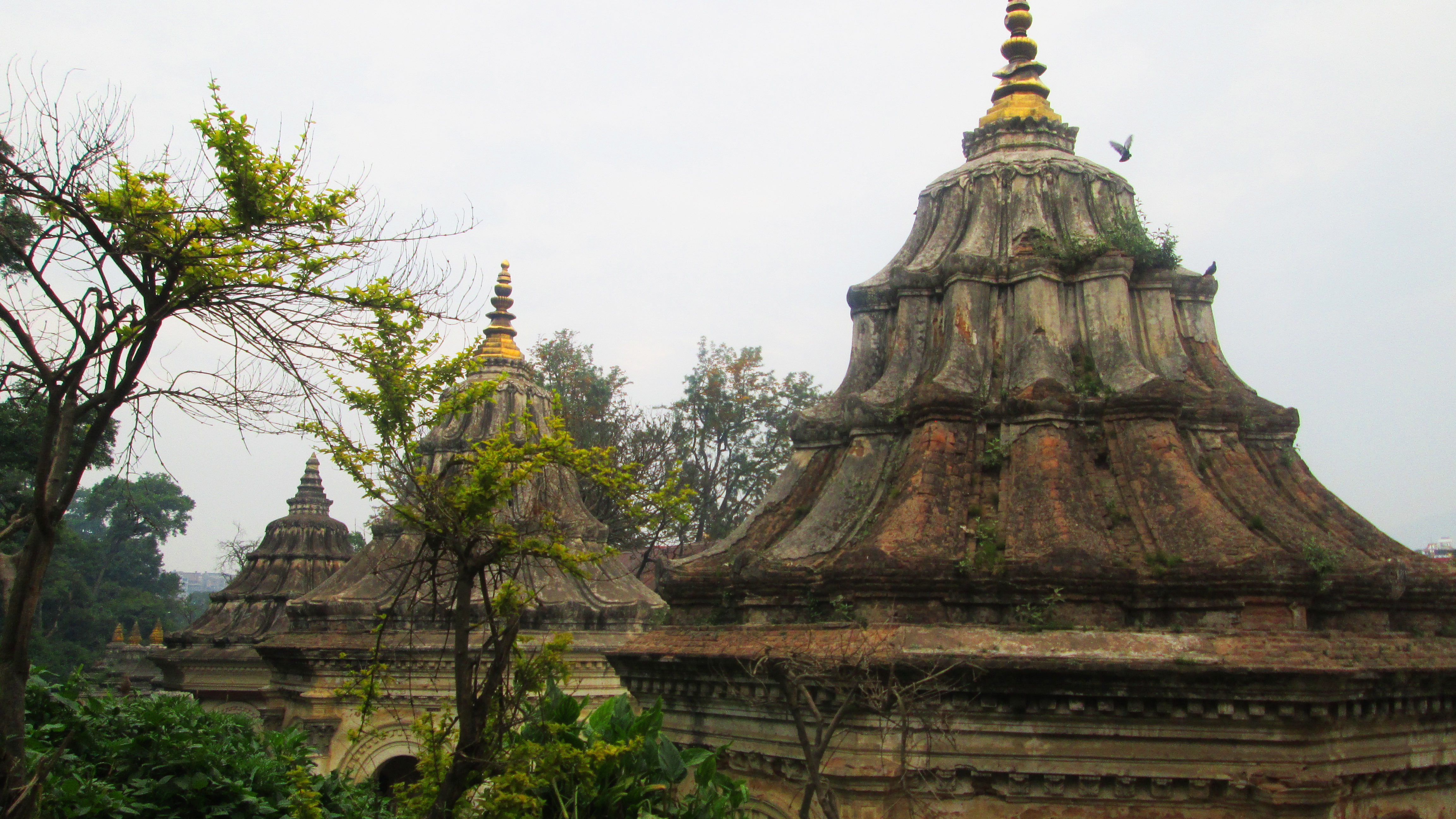 Guhyeshwari Temple, also spelled Guheswari or Guhjeshwari, is one of the revered holy temples in Kathmandu, Nepal.नेपाली: गुहृयश्वरी काठमाडौं उपत्यकामा बागमती नदीको दक्षिणी किनारामा यो मन्दिर अवस्थित छ।